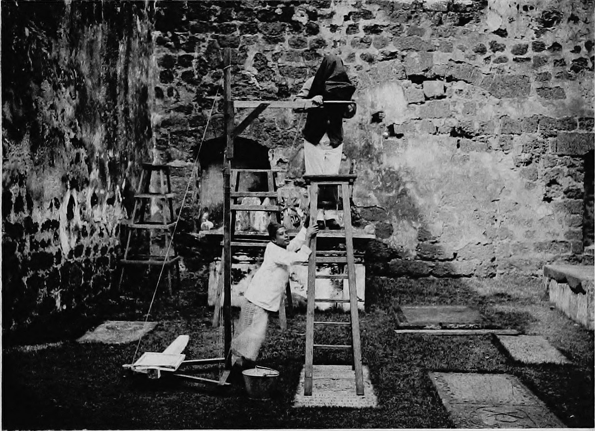 Identifier: cu31924023122777 Title: Historical tombstones of Malacca, mostly of Portuguese origin, with the inscriptions in detail and illustrated by numerous photographs Year: 1905 (1900s) Authors: Bland, Robert Norman Subjects: Sepulchral monuments Publisher: London : Elliot Stock Text Appearing Before Image: GATEWAY TO FORT. ( 70 ) Text Appearing After Image: THIS ILLUSTRATES THE METHOD BY WHICH THESE STONESWERE PHOTOGRAPHED. ( 71 ) 72 )